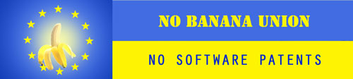 Banner of the EU-banana-union campaign of the FFI.